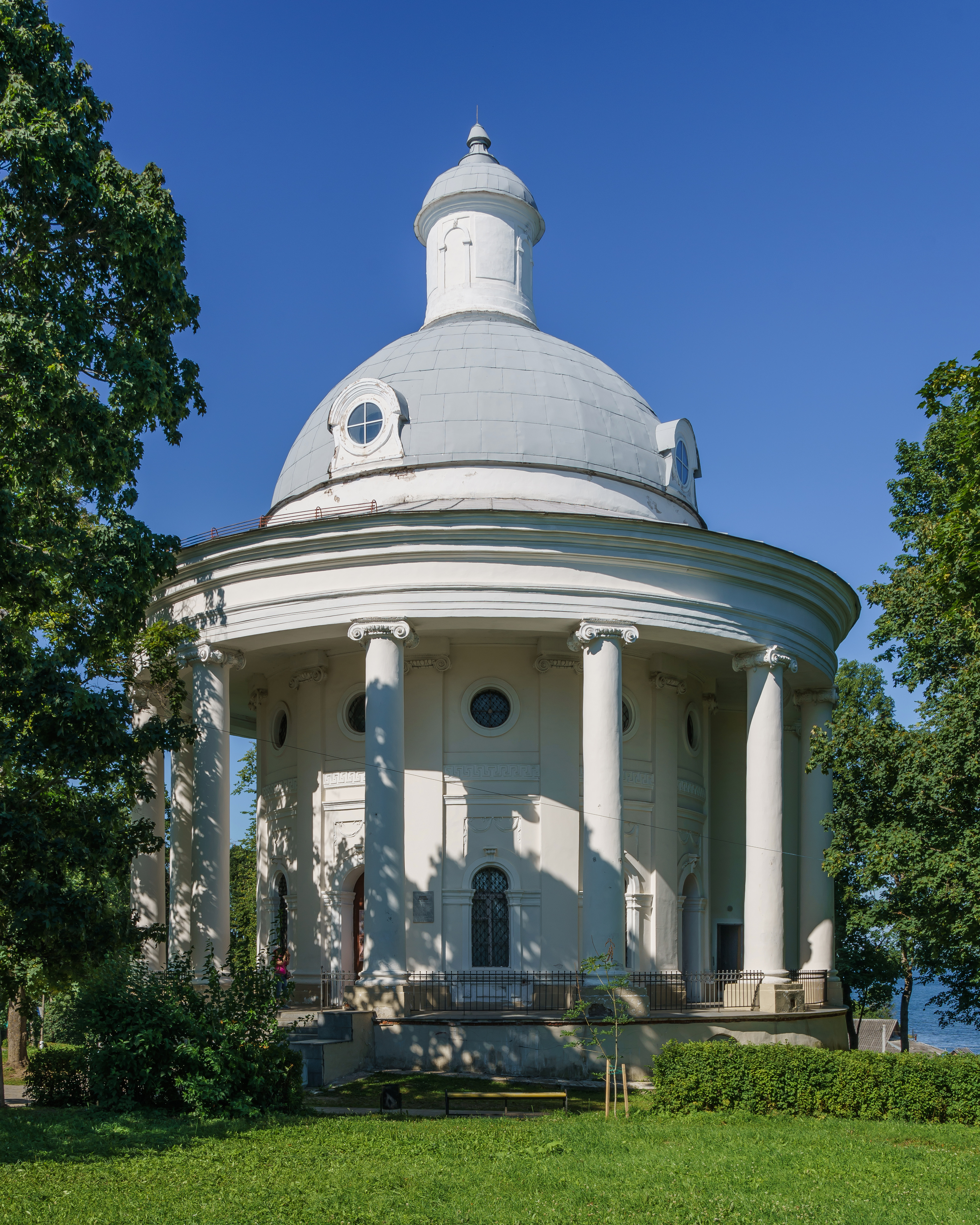 Museum of Bells (former St. Catherine Church) in Valdai, Novgorod Oblast, Russia